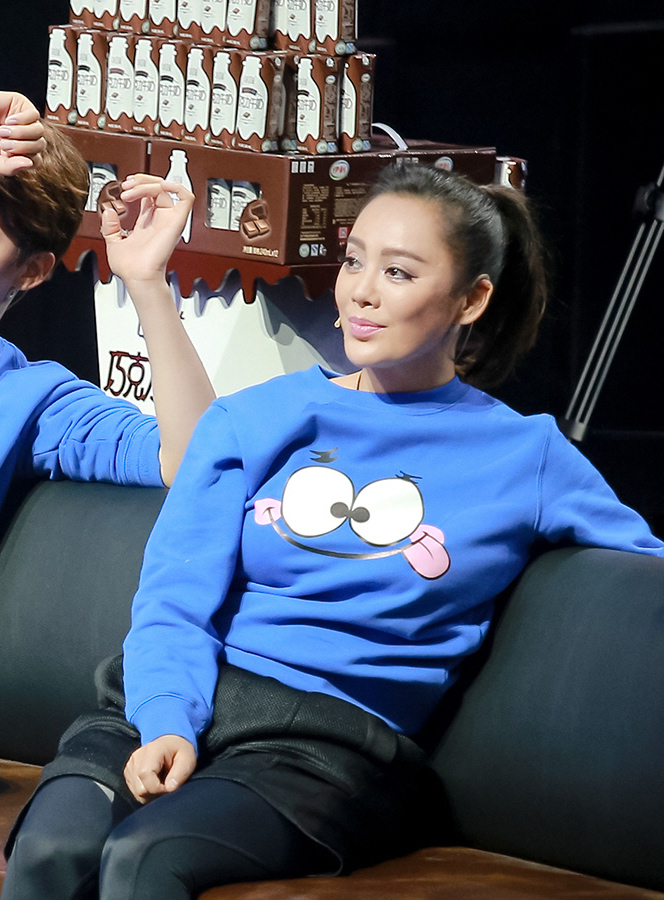 Image of Ning Jing cropped from original